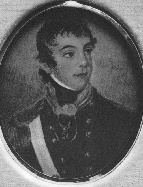 James Thomas Morisset